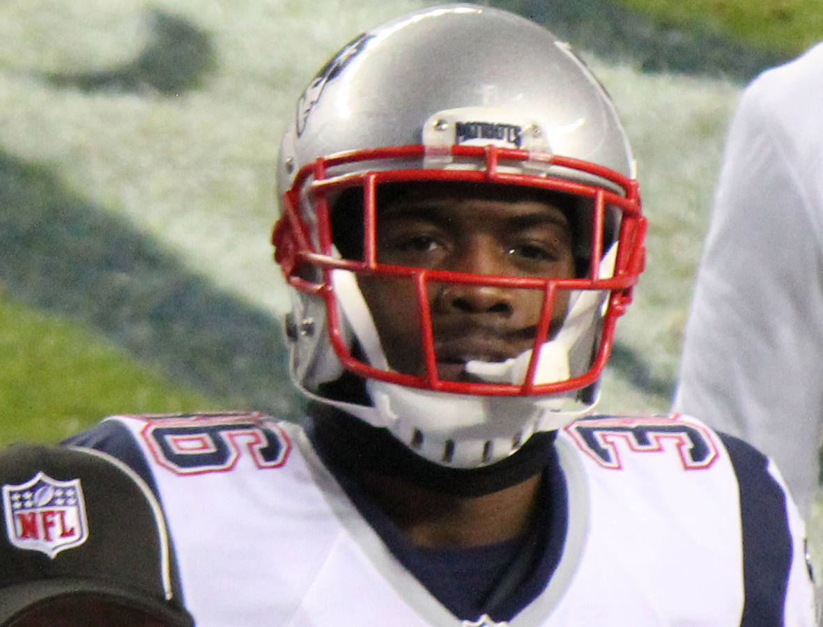 Brandon King, a player on the National Football League.